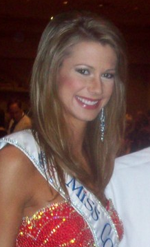 Maggie Ireland Miss Colorado 2007